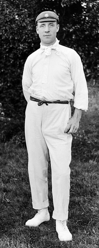 Warwickshire cricketer Crowther Charlesworth circa May 1905.